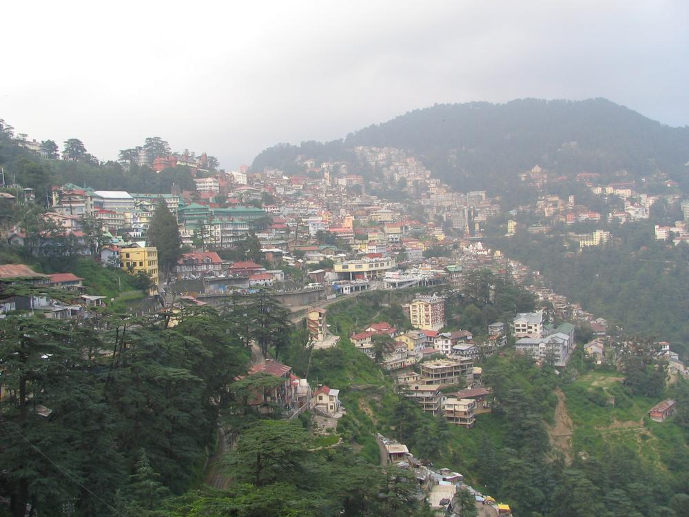 Shimla, capital of Himachal Pradesh, India. View from above the railway station